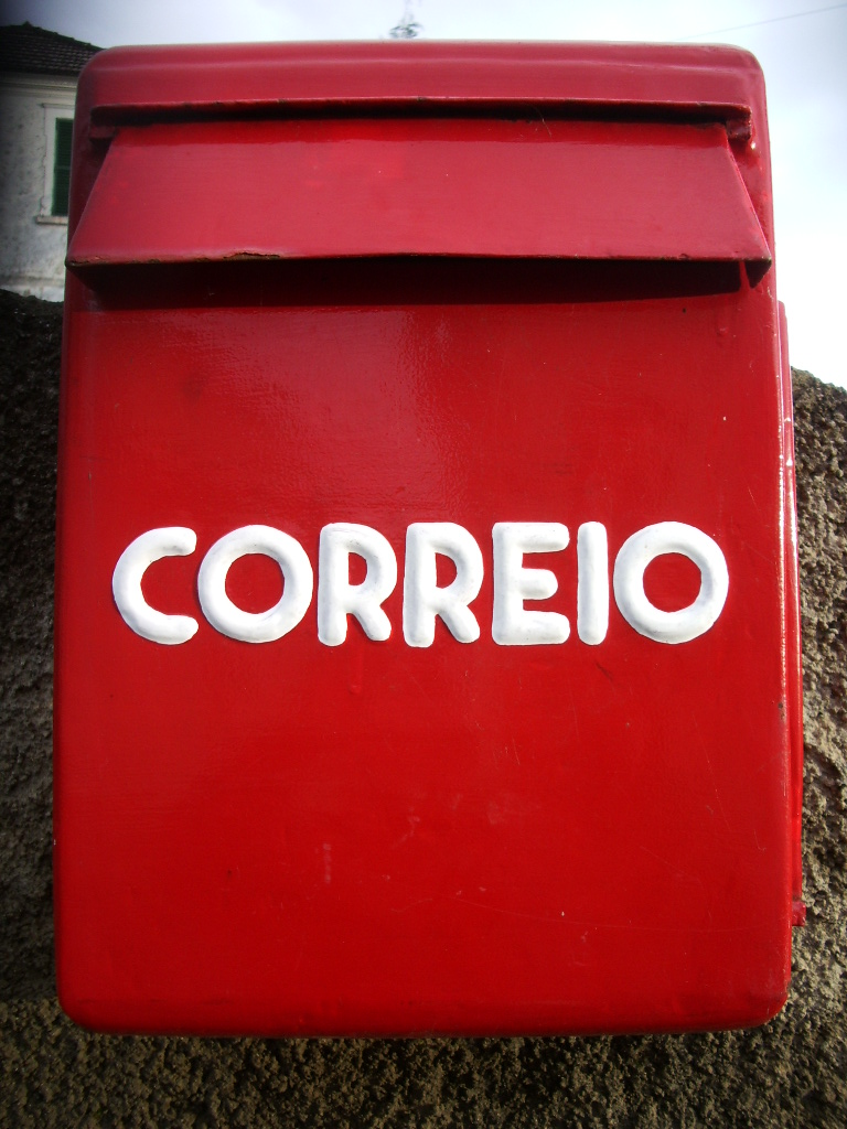 Madeira: official letter box